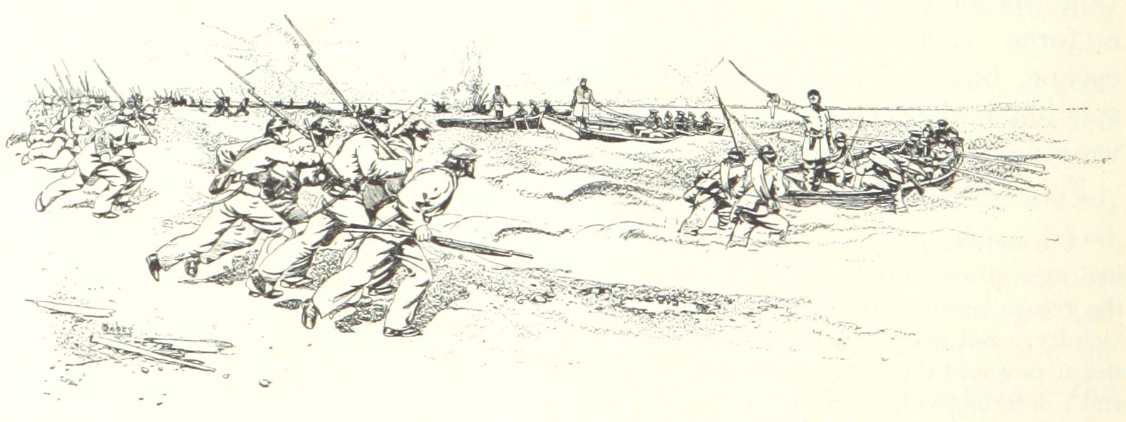 Confederate troops retreat from the failed October 1861 attack at Chicamacomico near Hatteras Inlet. Original caption read "Retreat of the Confederates to their boats after their attack upon Hatteras".